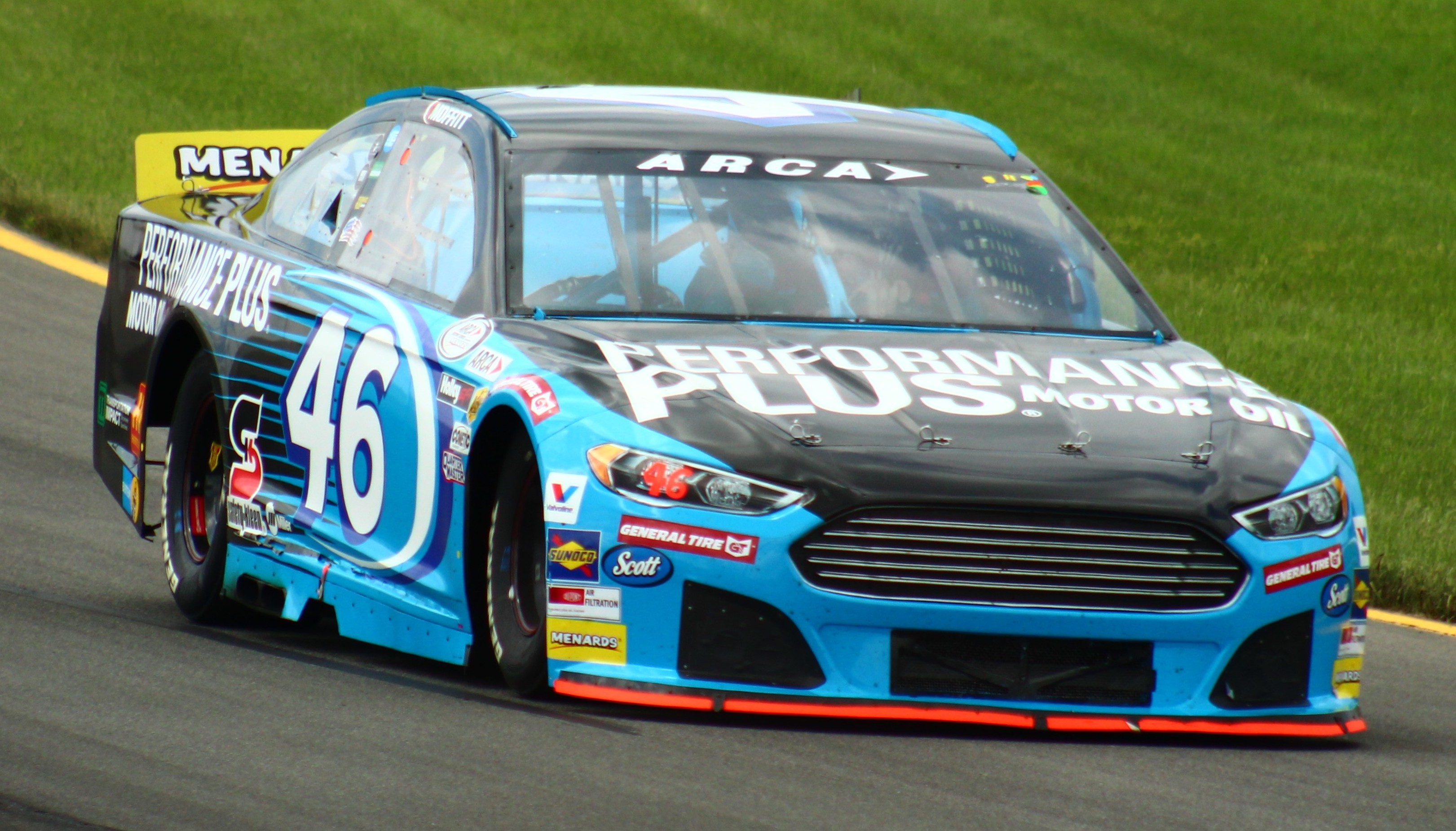 Thad Moffitt's No. 46 Performance Plus Ford at Pocono Raceway in 2018